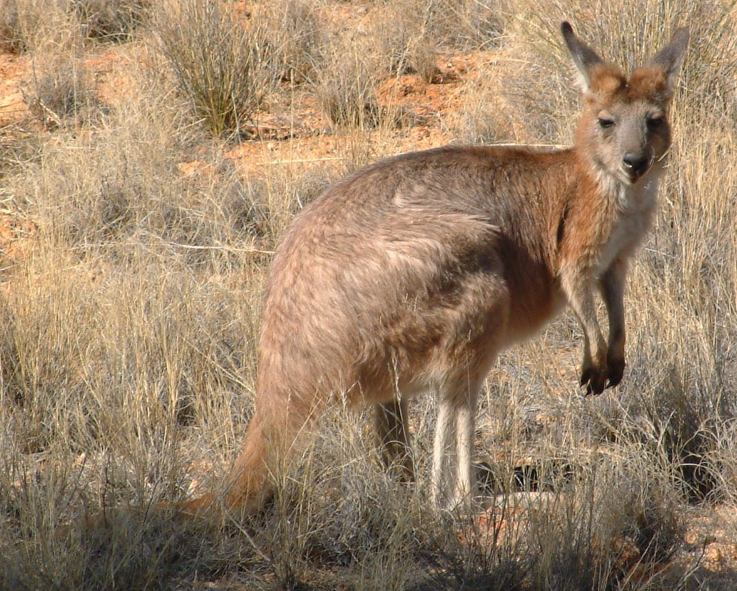 Eastern Wallaroo, or Euro (Macropus robustus), at Alice Springs Telegraph Station, Australia